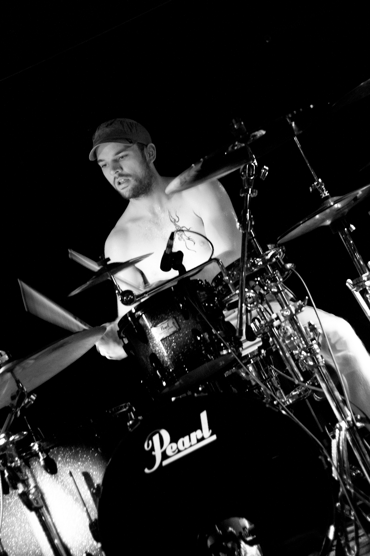 Steve Judd, drummer of Australian rock band Karnivool, during a concert at Stuttgart club Universum on 2010-12-11. View in my concert gallery.